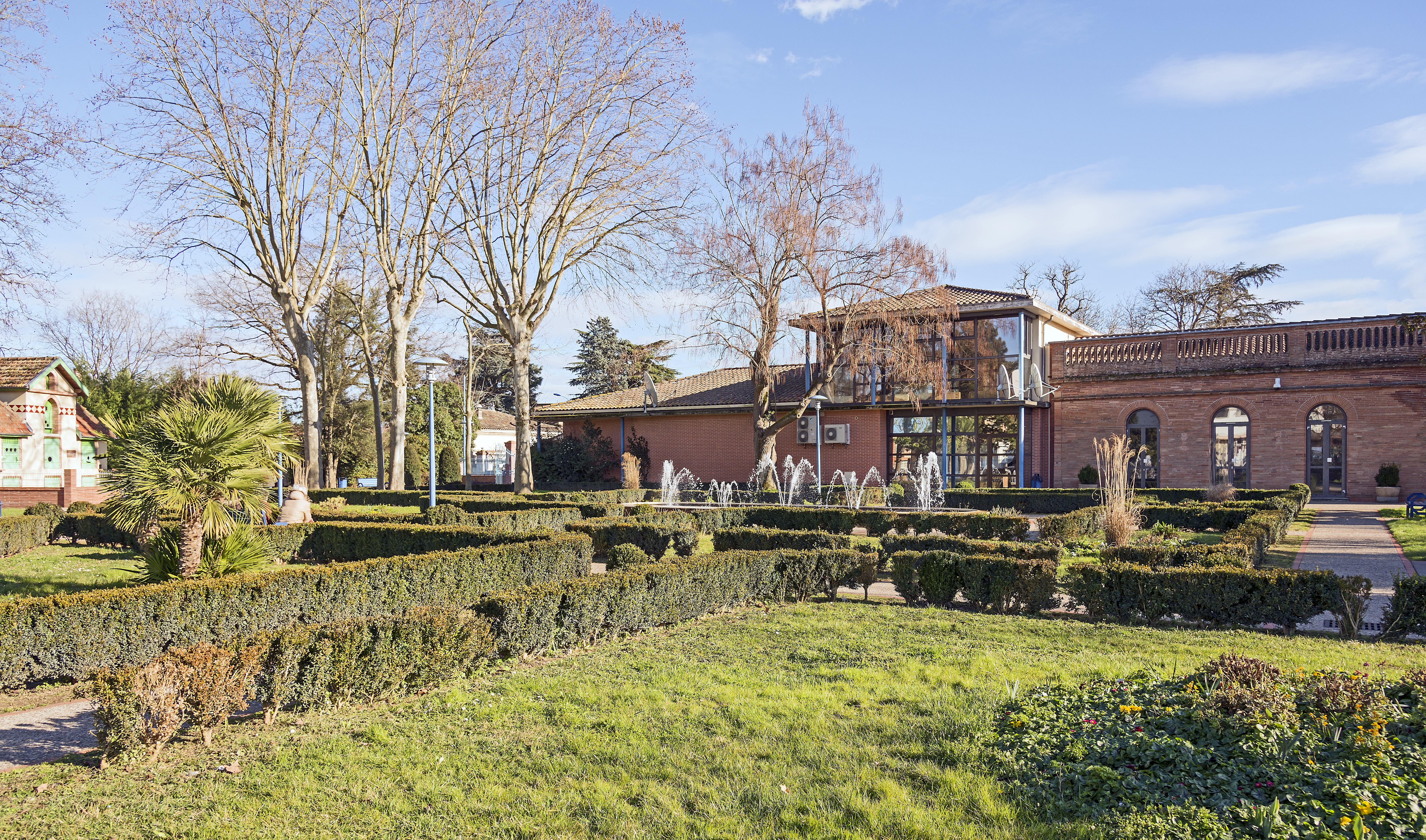 Castelginest. Parc Mauvezin.